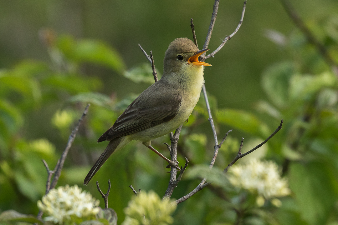 Melodious Warbler - Pavia hills FJ0A0706